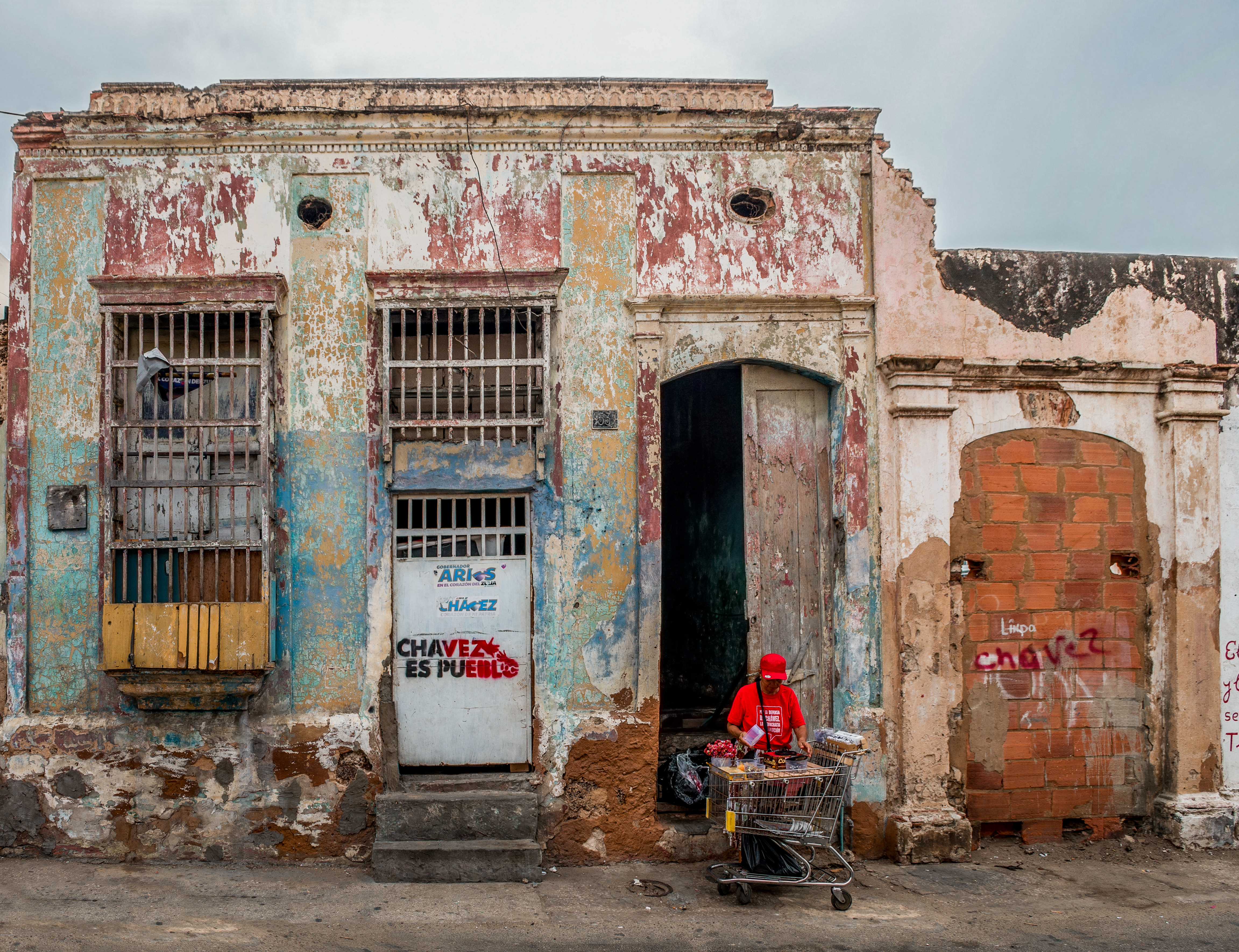 Typical colonial house from downtown Maracaibo. House painted with propaganda and woman in clothing supporting Hugo Chávez.